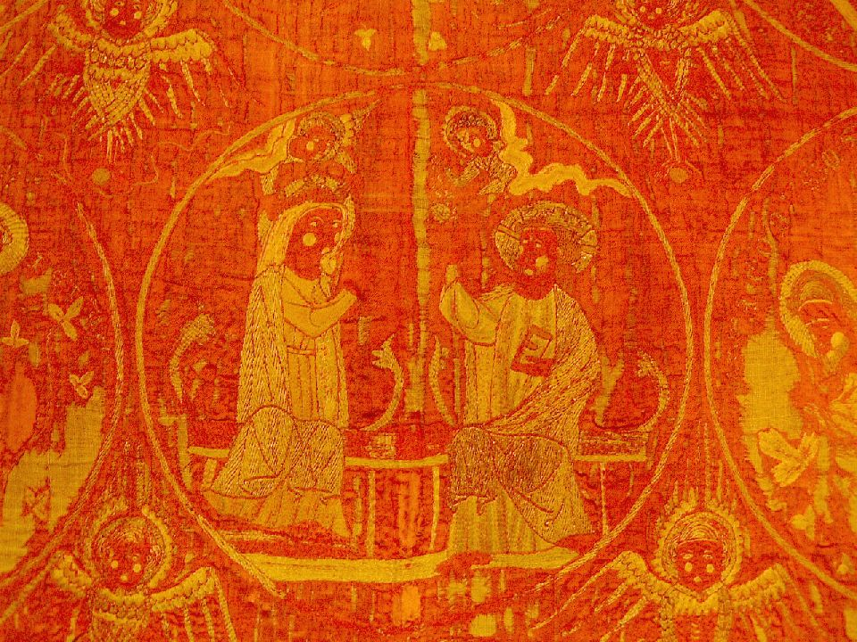 The "Martyr Cope" (1270), made from red silk (samite) with High Gothic embroidery in gold and silk. The circles contain representations of martyrs and in the centre, below the hood, (this circle) is the Coronation of the Virgin Mary. More photos of this cope available at website.